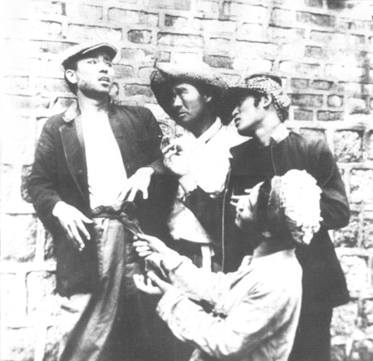 Description: Promotional poster for the Na Woon-gyu (1902 – 1937) film, Jalitgeola (1927).